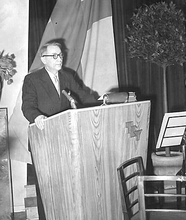 Local politician of Tampere, Lauri Santamäki (Kokoomus).